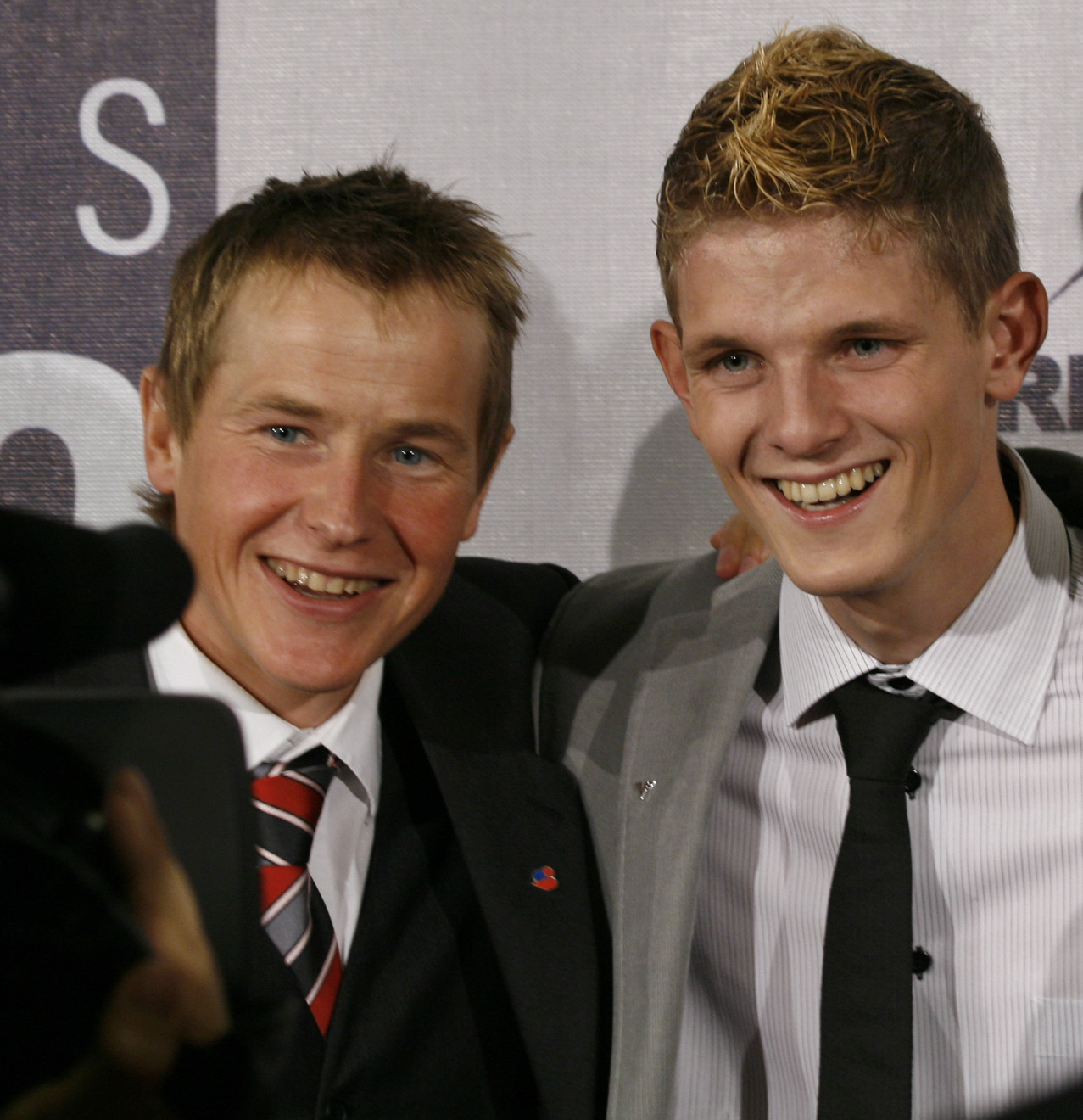 Austrian ski jumpers Andreas Goldberger (left) and Thomas Morgenstern at the Galanacht des Sports (Gala-Night of Sports), where Morgenstern was honoured als Austrian Sportspersonality of the year.